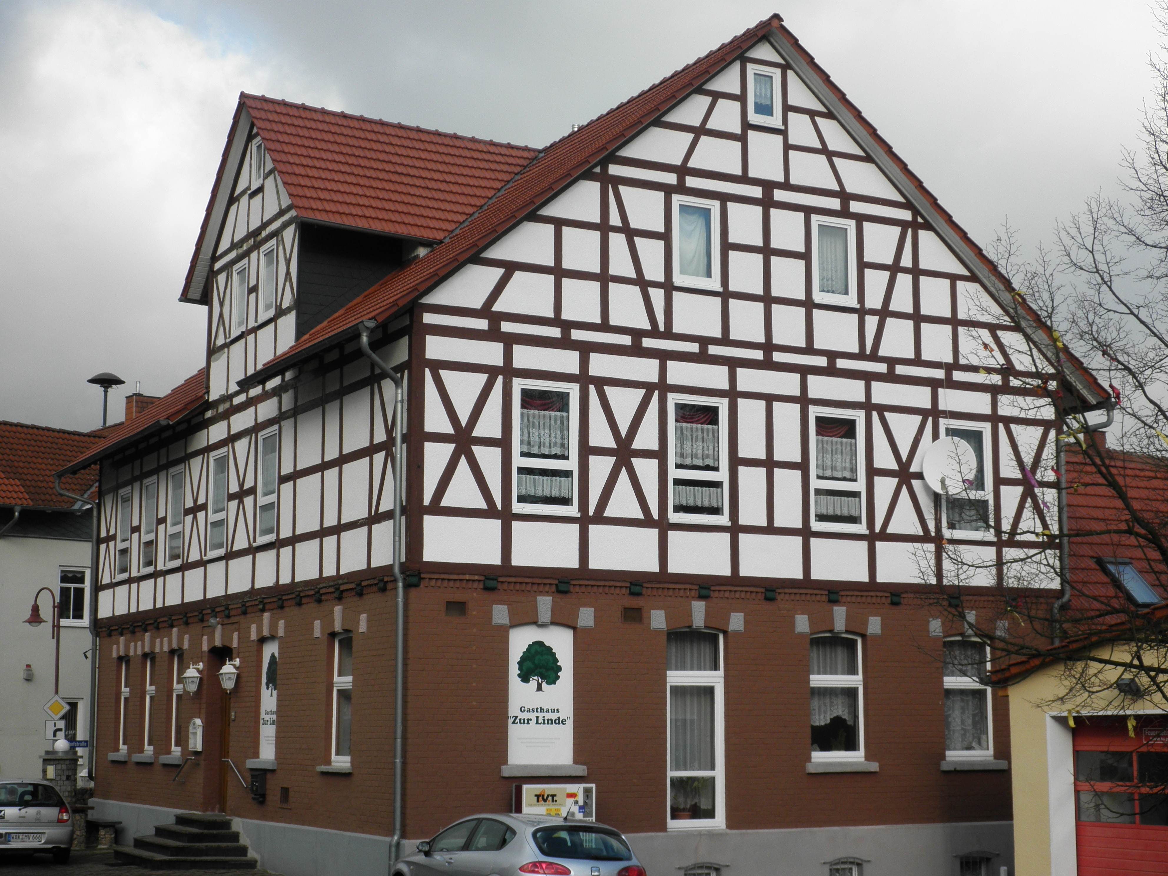 Guesthouse and Restaurant in Empfertshausen (Rhön)